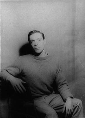 Paul Taylor photo taken by Carl Van Vechten, photographer. CREATED/PUBLISHED 1960 Jan. 12.